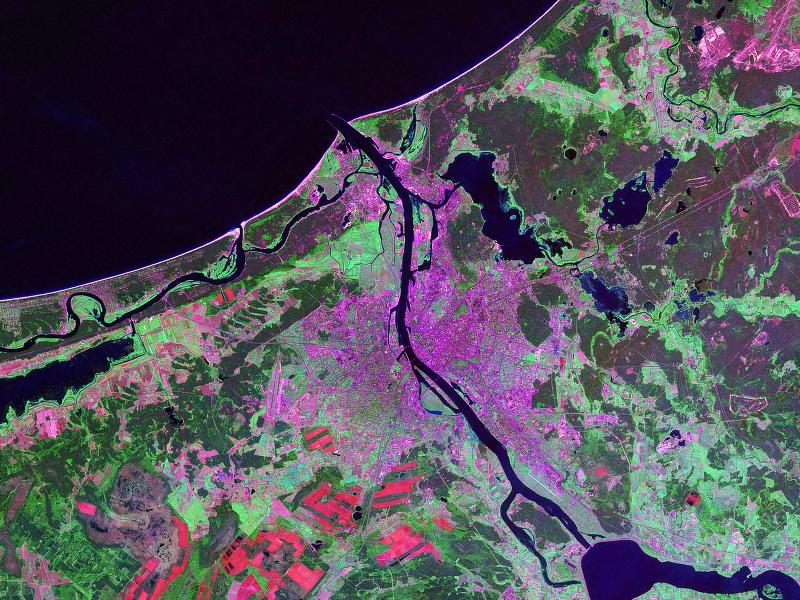 Riga photographed by satellite